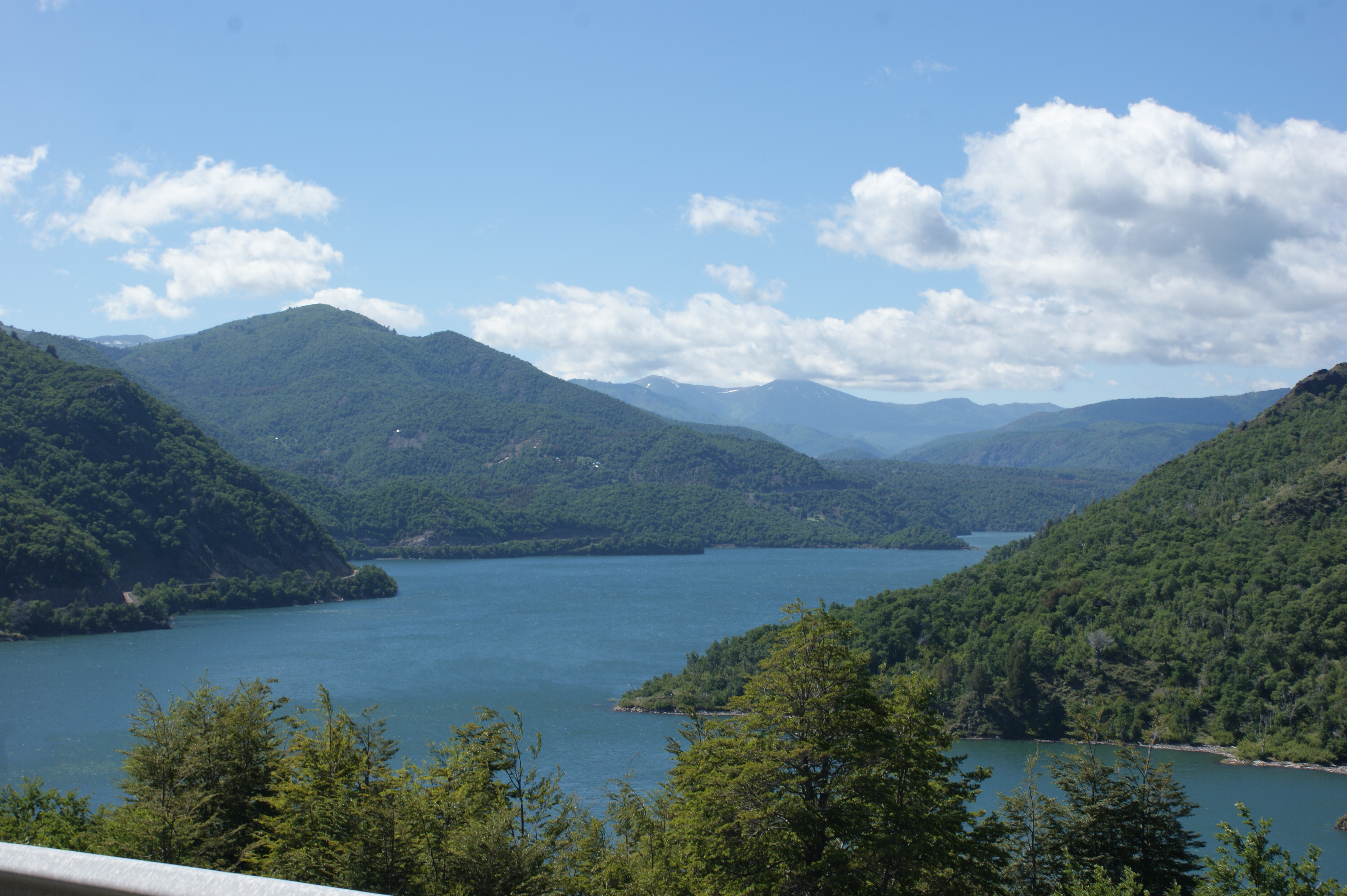 Ralco Reservoir in Alto Biobío in Chile